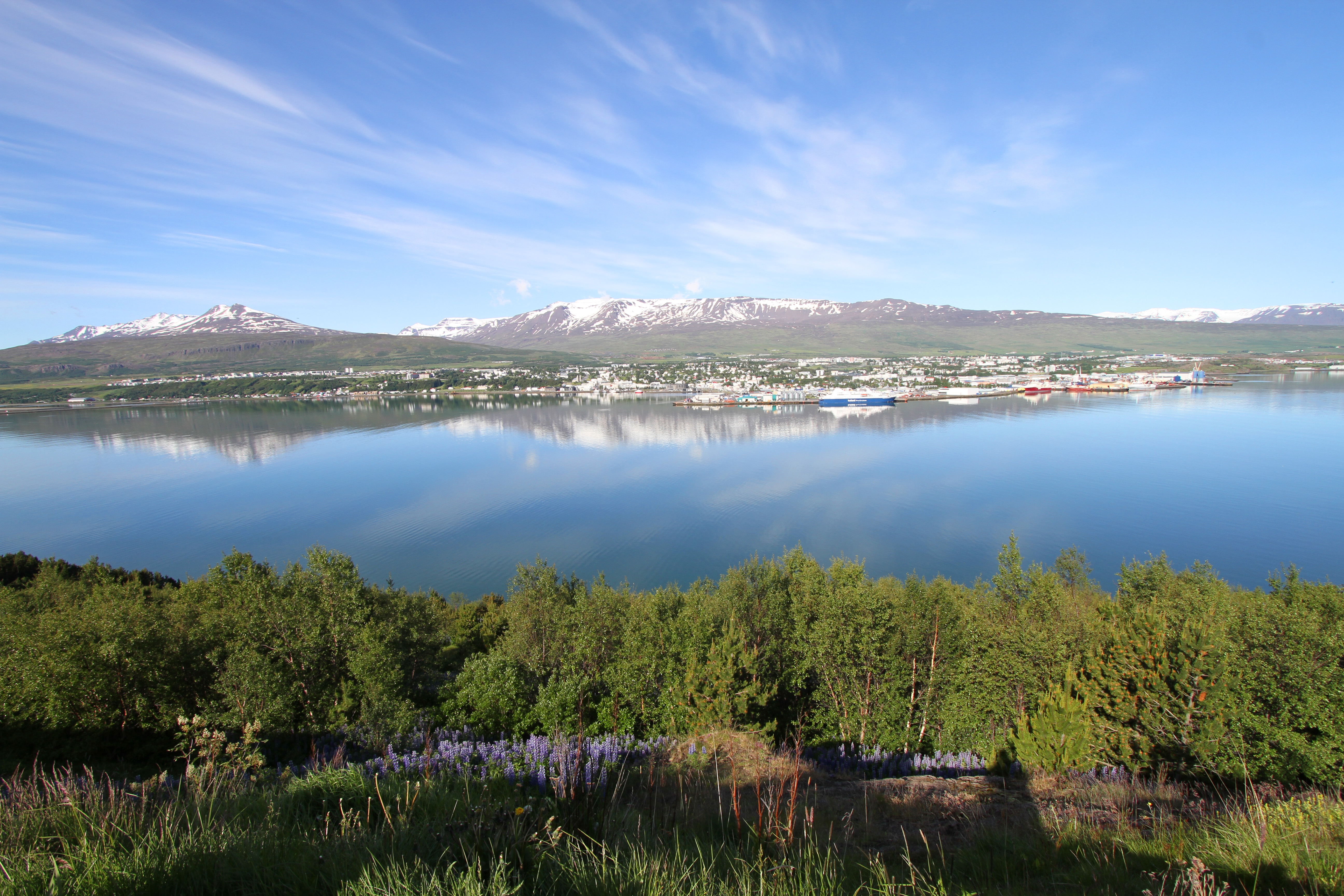 Akureyri in Iceland